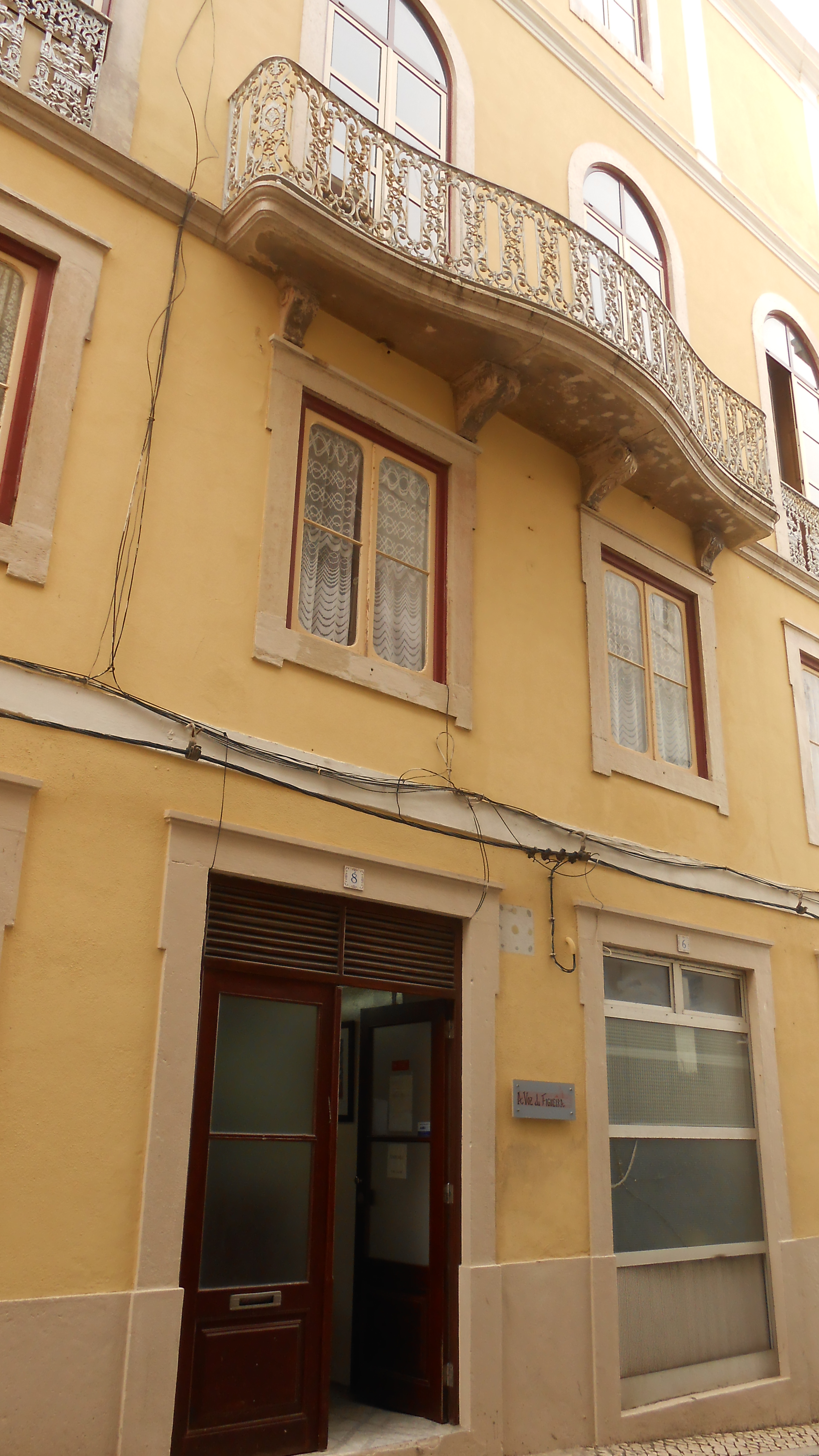 The headquarter of the A Voz da Figueira weekly newspaper from Figueira da Foz.